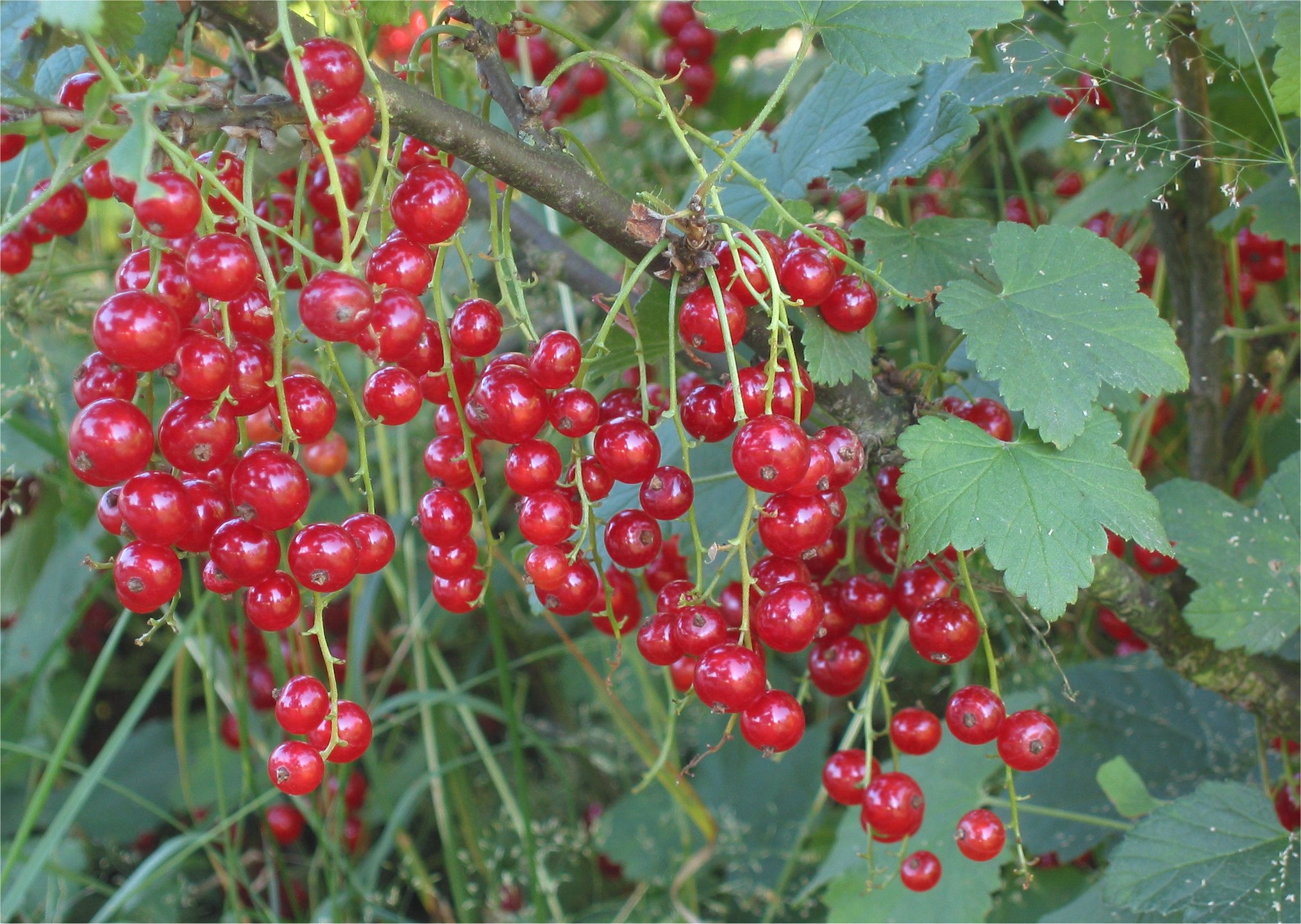 Ribes rubrum